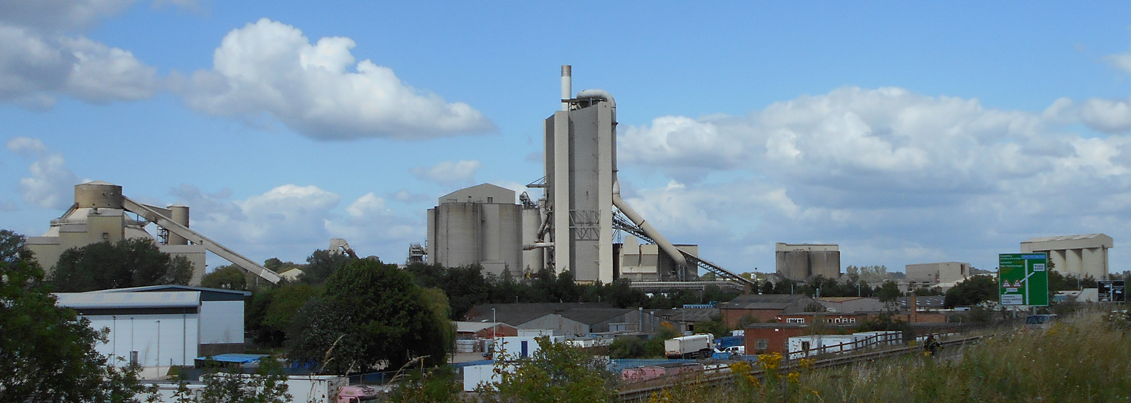 The Cemex cement works at Rugby, seen from the Rugby Western Relief Road.